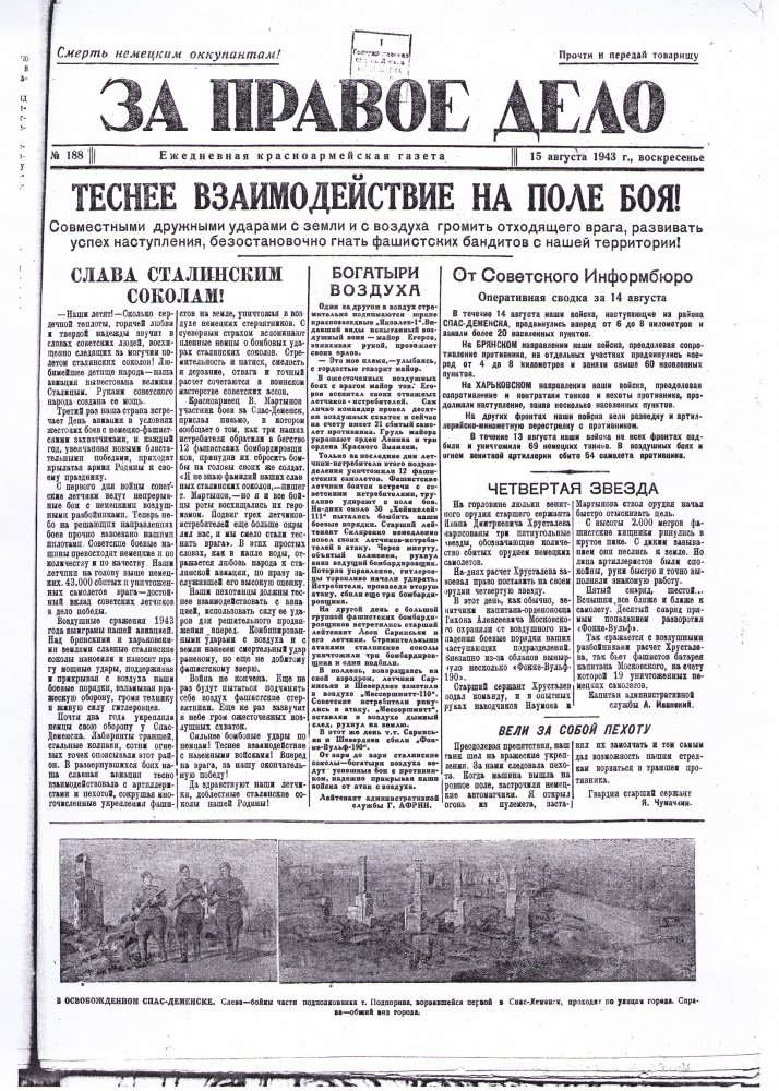 Red Army newspaper "For the right thing!" Nr. 188 of August 15, 1943